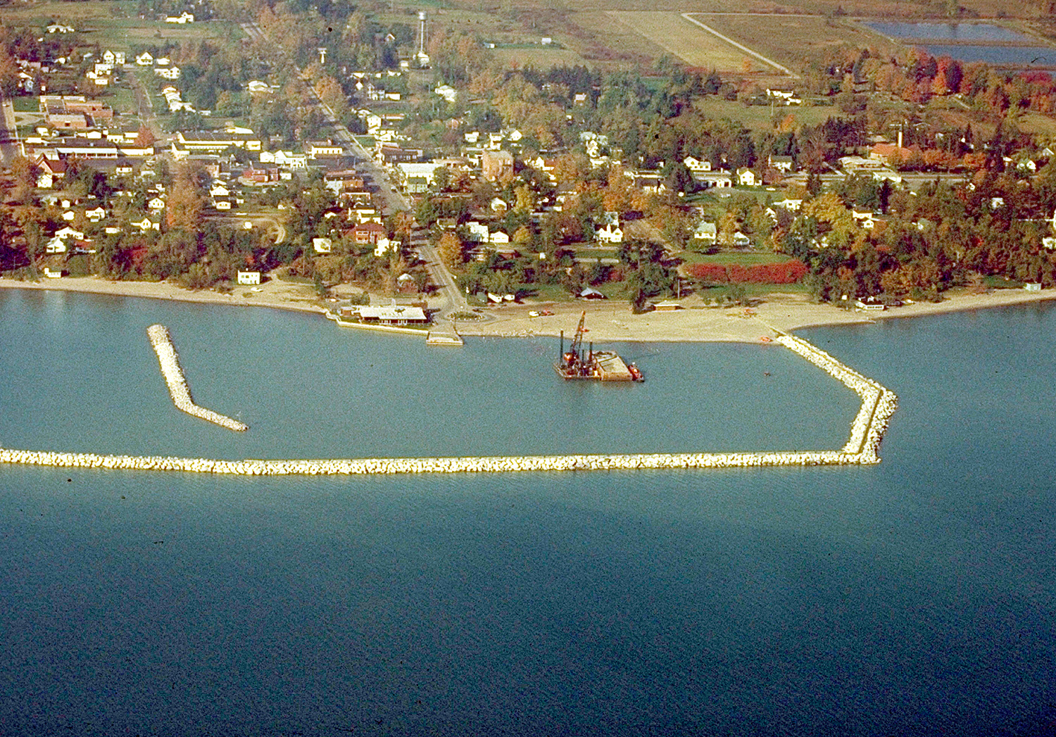 Aerial view of Lexington, Michigan, USA. The U.S. Army Corps of Engineers constructed the harbor and breakwater on Lake Huron.